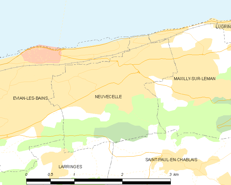 Map of French municipality Neuvecelle